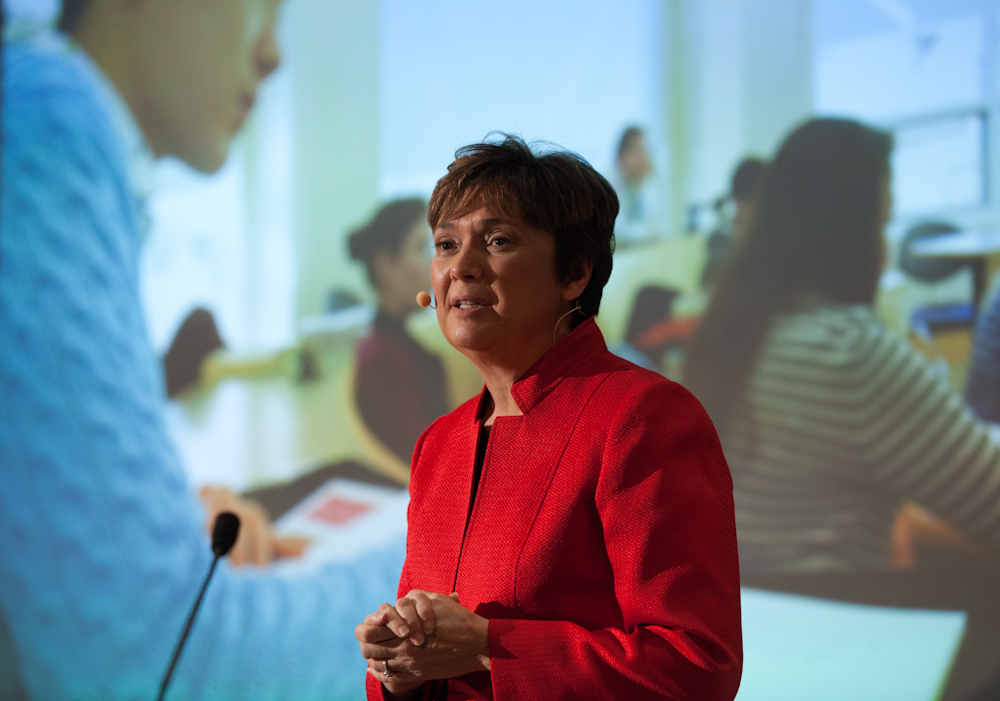 Lynn Pasquerella, President of Mount Holyoke College, discussed the future of higher education and the value of the liberal arts at TEDxPioneerValley on January 21, 2012. TEDxPioneerValley, an independently organized event licensed by TED, explores learning that takes place in unexpected ways, cracking open traditional notions of how learning happens. The day-long conference at Amherst College Jan. 21, 2012, is presented in collaboration with the Holyoke Community College Adult Learning Center, Amherst College, Smith College and Mount Holyoke College. Photo by Samuel Masinter